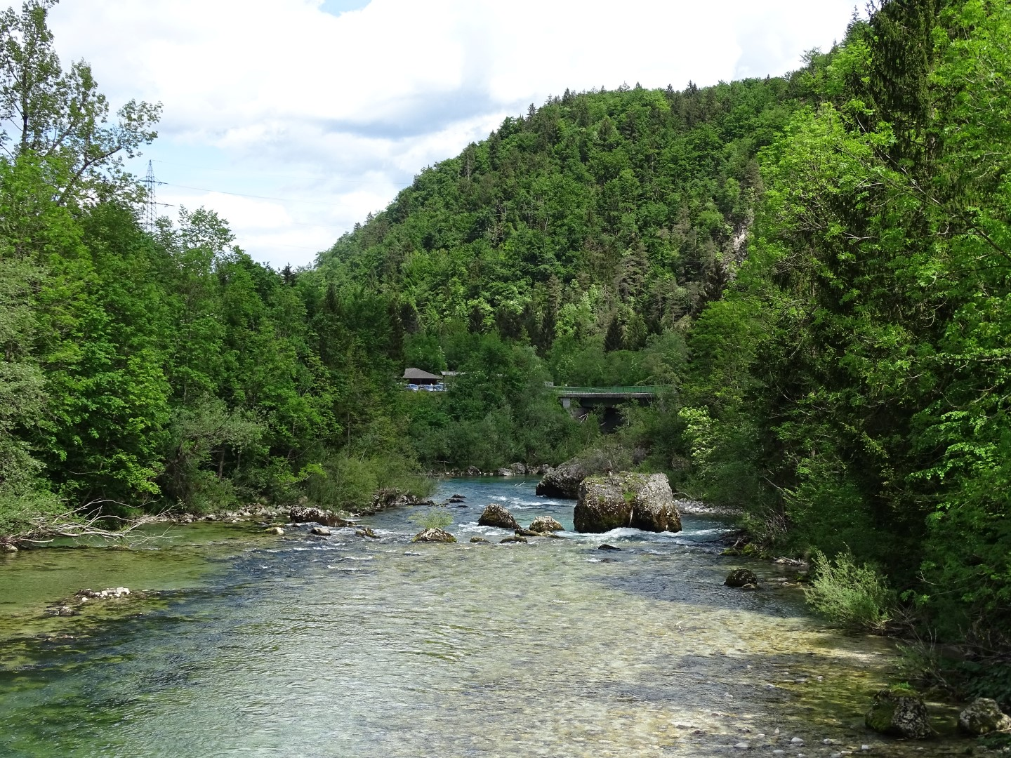 bridge across the river Sava at Bohinjska Bela